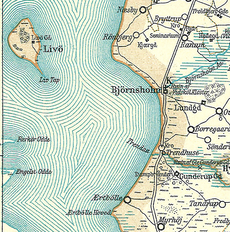 Map of Bjørnshjolm Bugt in Denmark